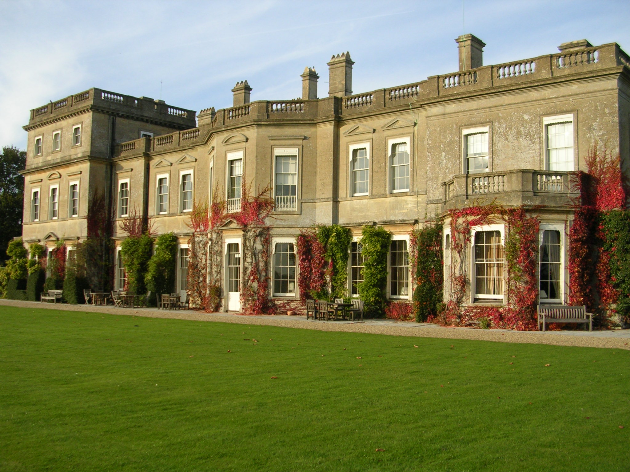 18th century mansion built of Bath stone, with Italianate alterations.